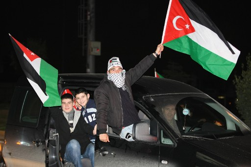 Turks carrying the flag which was designed by the Turks to Gaza, which consists of the flag of Palestine and the Emblem of Turkey to express their solidarity with the people of Gaza. Note: Gaza-Turkey solidarity flag, designed by Turks.